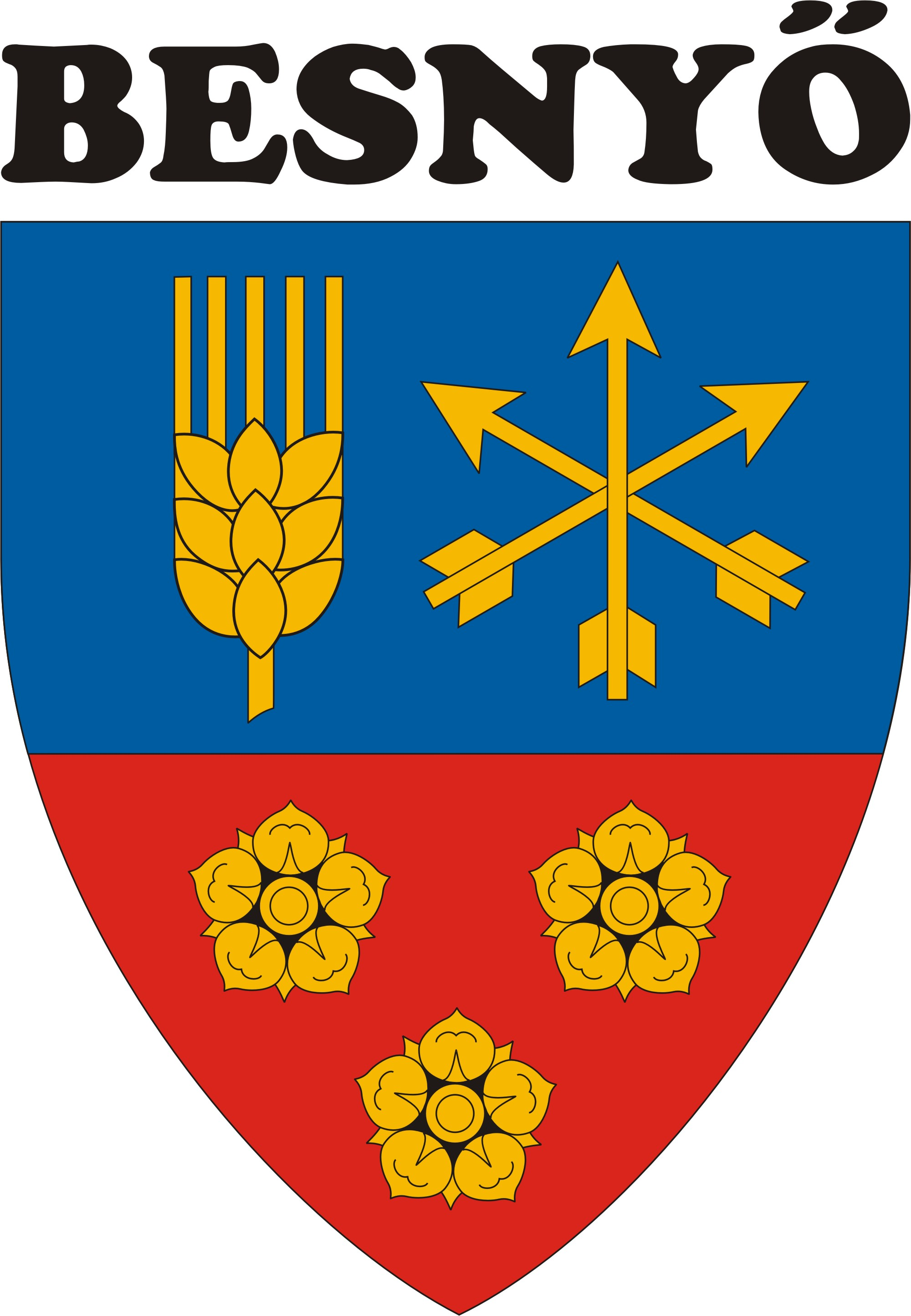 Coat of arms of Besnyő, Hungary